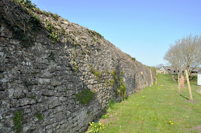 Old town wall - Cowbridge This section of the wall appears stable so it is doubtful that it will need any restoration for a while yet.